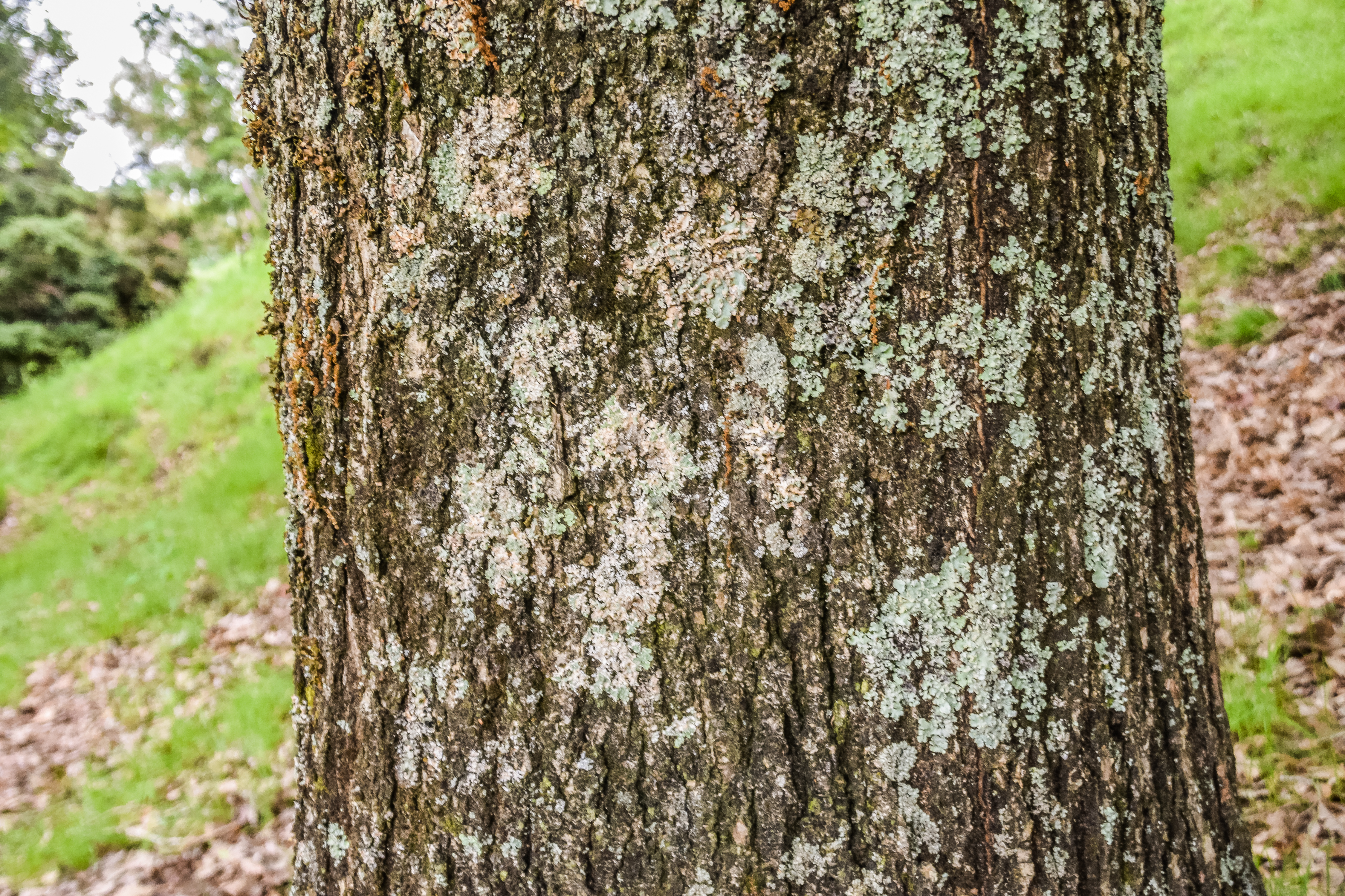 Quercus aliena in Hackfalls Arboretum, Gisborne Region, New Zealand